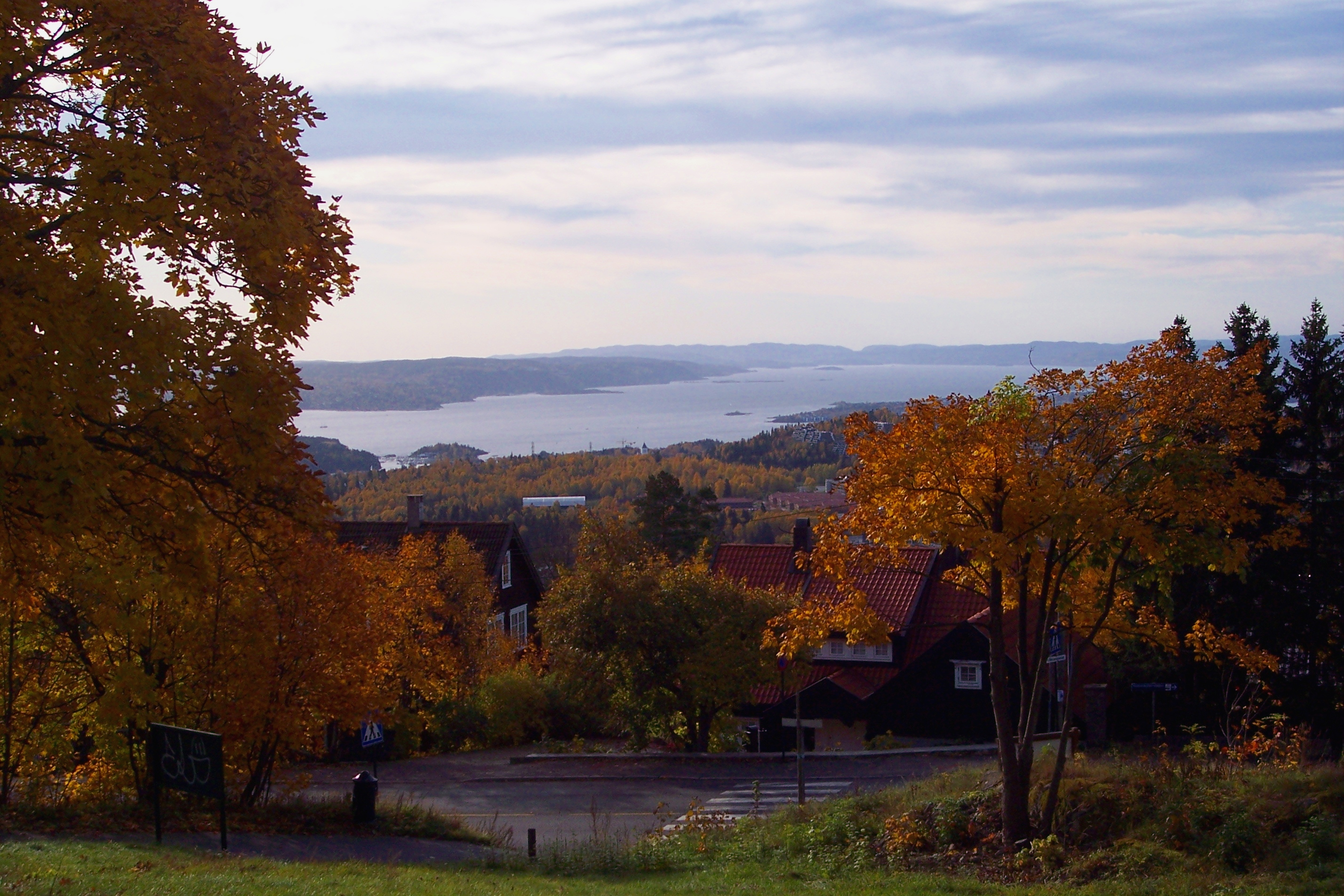 The Oslofjord seen from Holmenkollen (Oslo) in 2008.